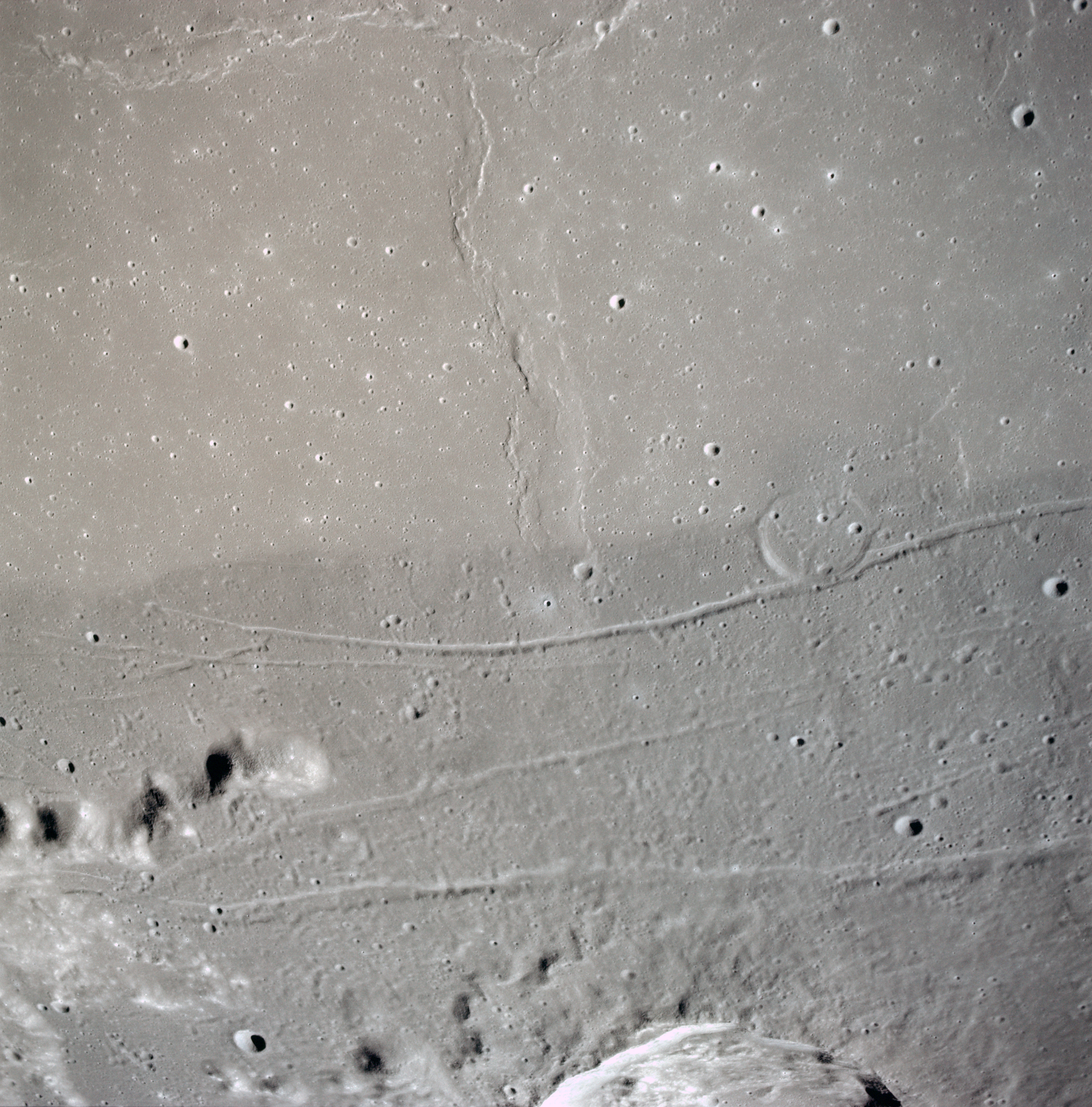 Boundary of Mare Serenitatis (at the top) and Mare Tranquillitatis (at the bottom). Lava of different albedo is seen. The brighter lava is younger. Photo by Apollo 17 (1972). Width of the photo is approximately 100 km, north is approximately up.